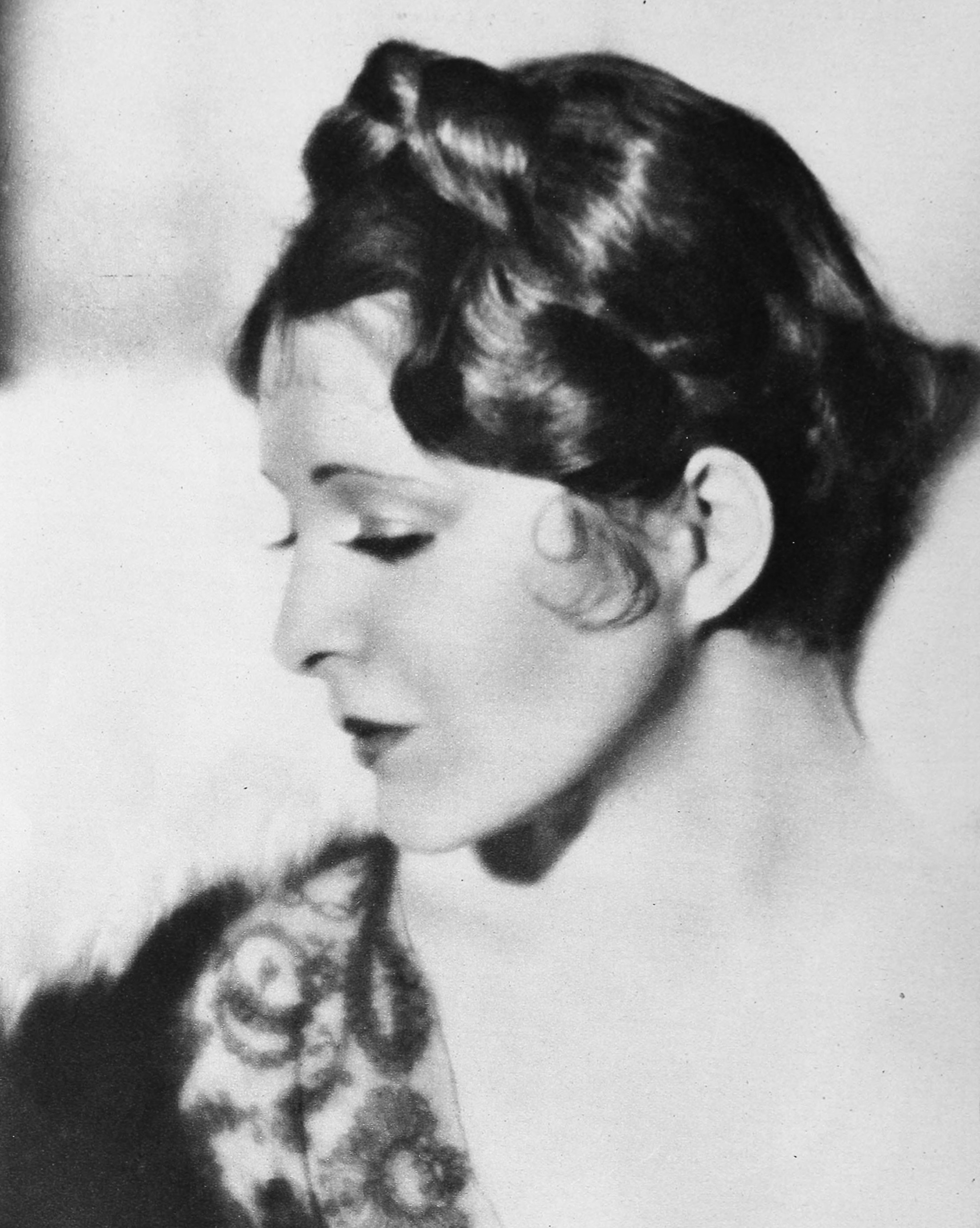 Included in the set of Rolf Armstrong's 16 screen beauties.